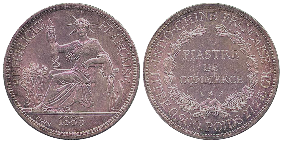 "French Indochina Piastre 1885.png" with transparent background